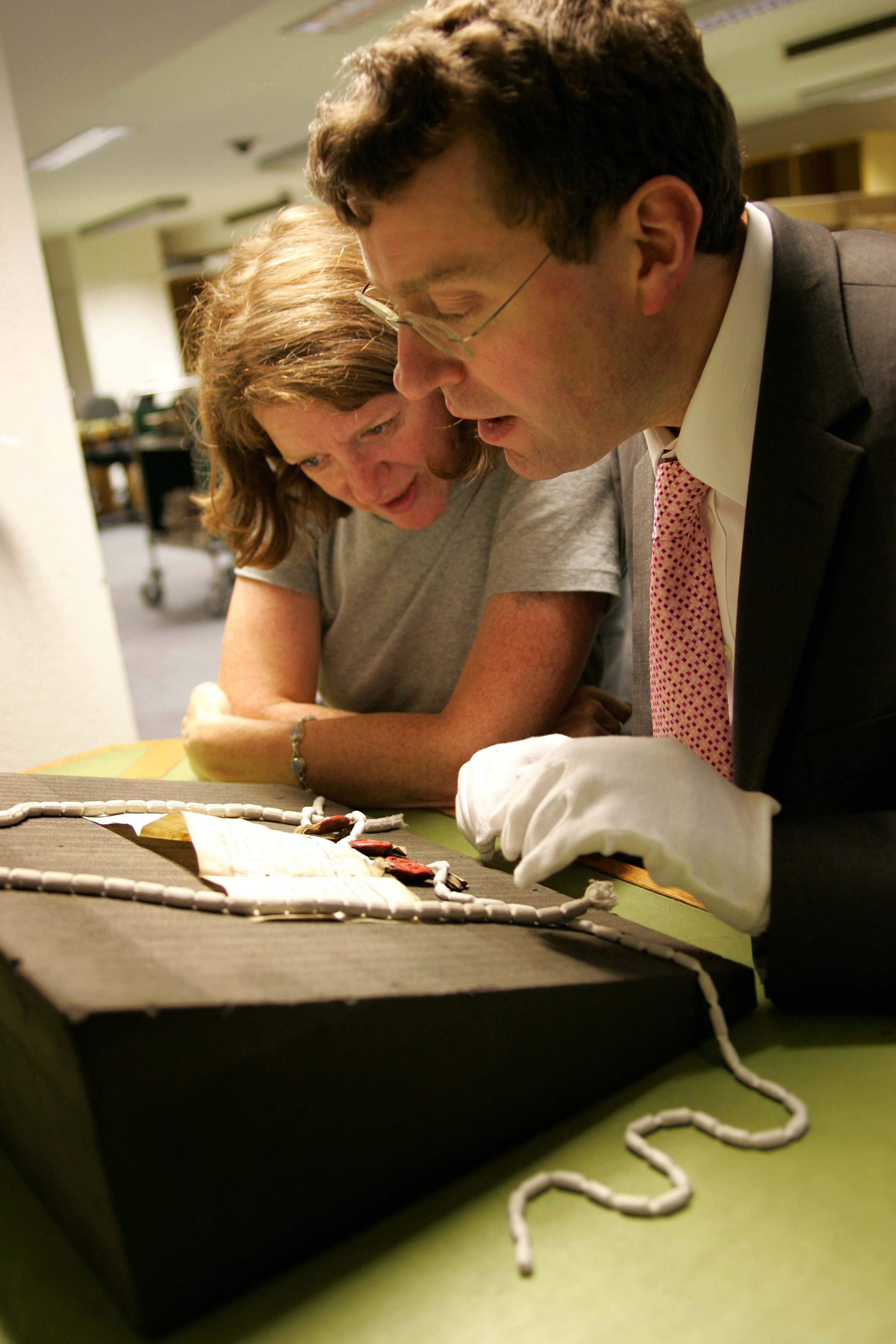 An Examination of documents at The National Archives